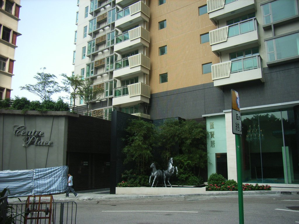 匯賢居: Center Place, No.1 High Street, Sai Ying Pung, Hong Kong Author:CenterPS